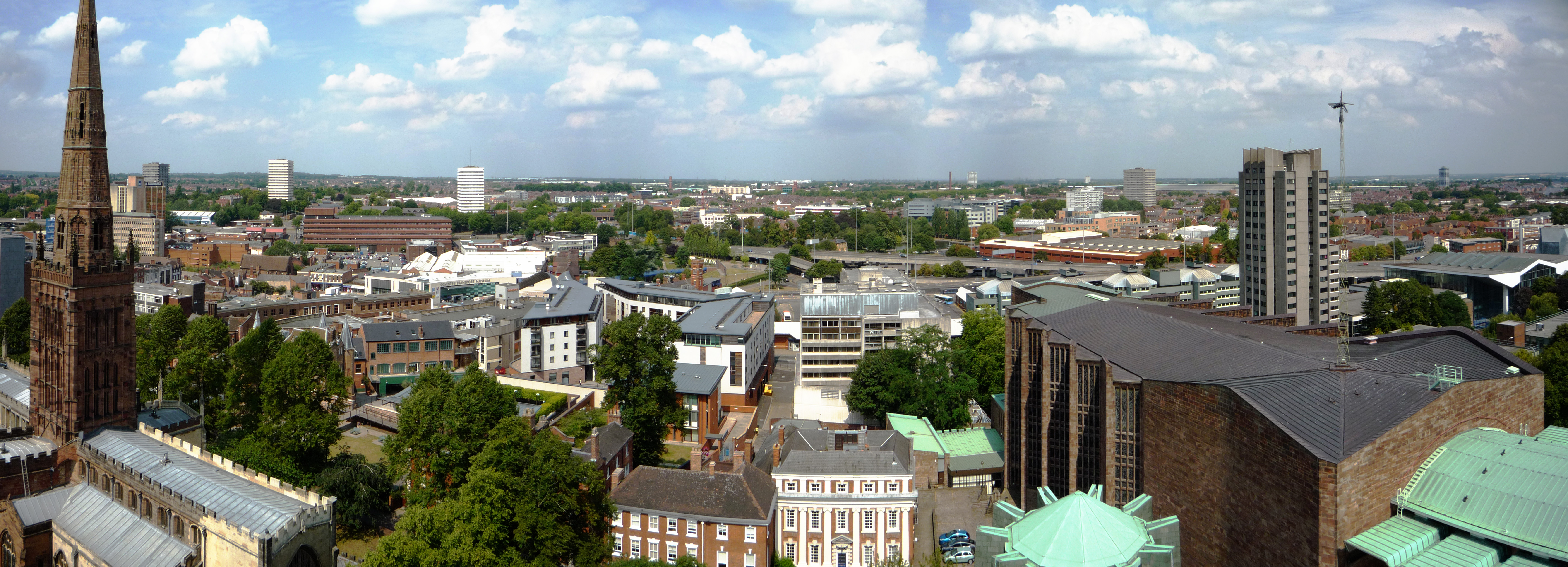 View north from the tower of Coventry Cathedral, towards Pool Meadow. On the left is Holy Trinity parish church. On the right is the new cathedral.